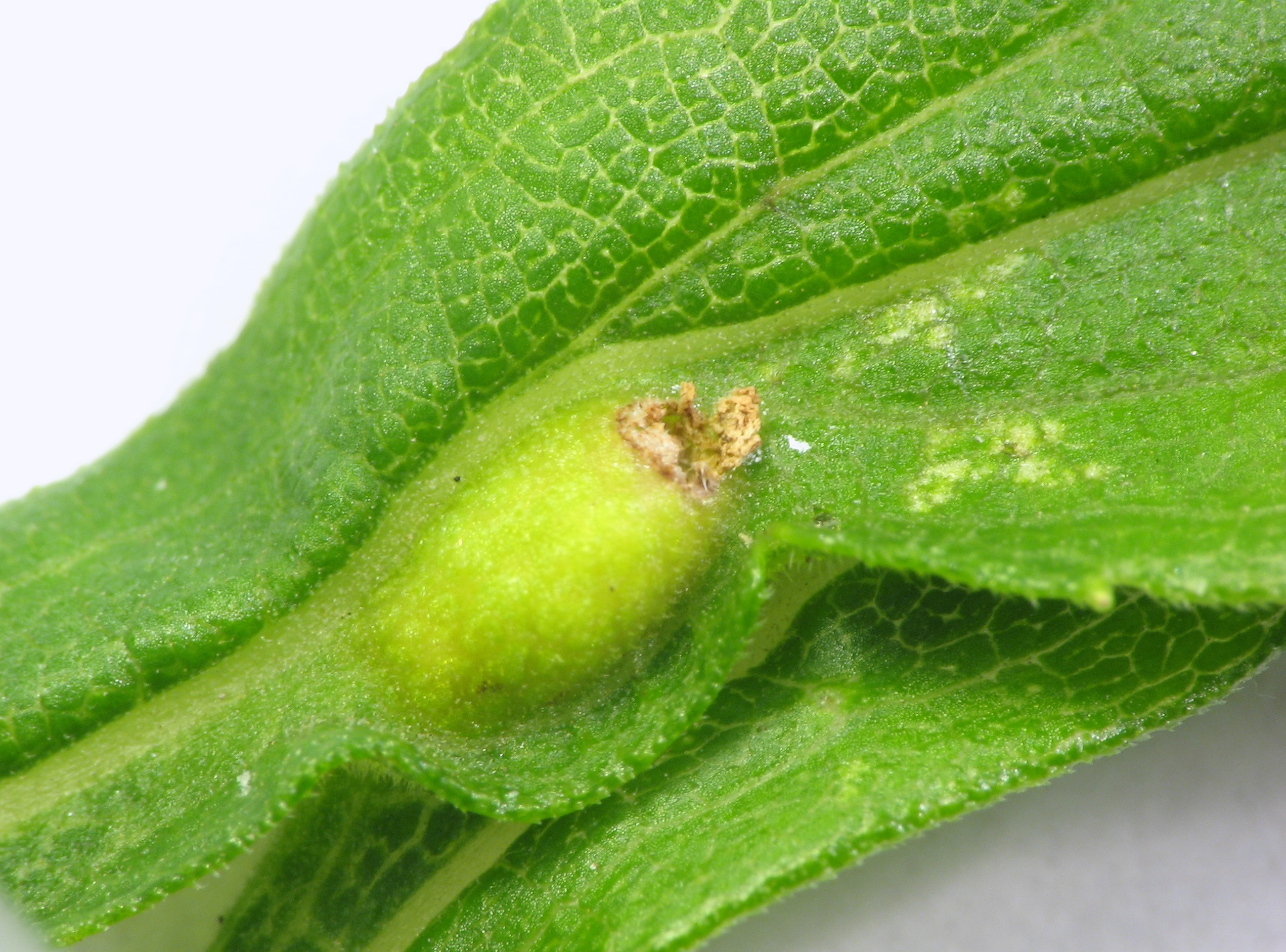 Gall made by Asphondylia solidaginis in goldenrod (joining two leaves). Pennypack Restoration Trust, Montgomery County, Pennsylvania, USA.